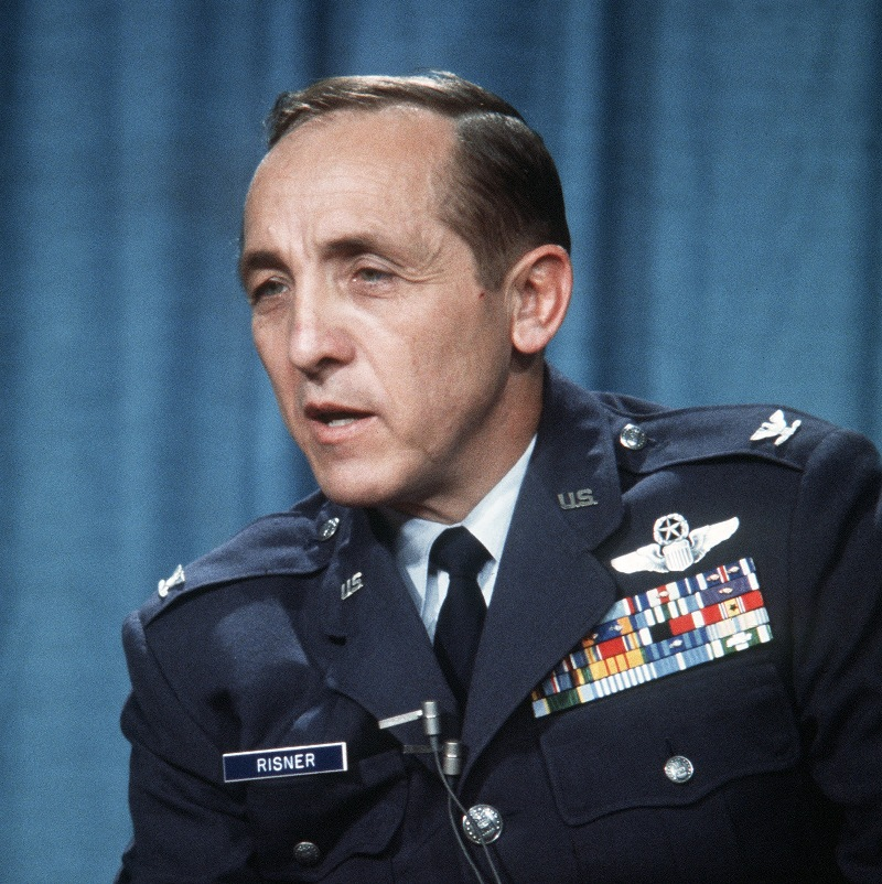 "Former POW and U.S. Air Force COL Robinson Risner, (Captured 16 Sep 65) answer questions at a press conference. COL Risner was released by the North Vietnamese in Hanoi on 12 Feb 73."